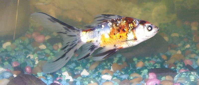 Category:Goldfish images (Original text: 'An American Shubunkin (a calico goldfish variety).)